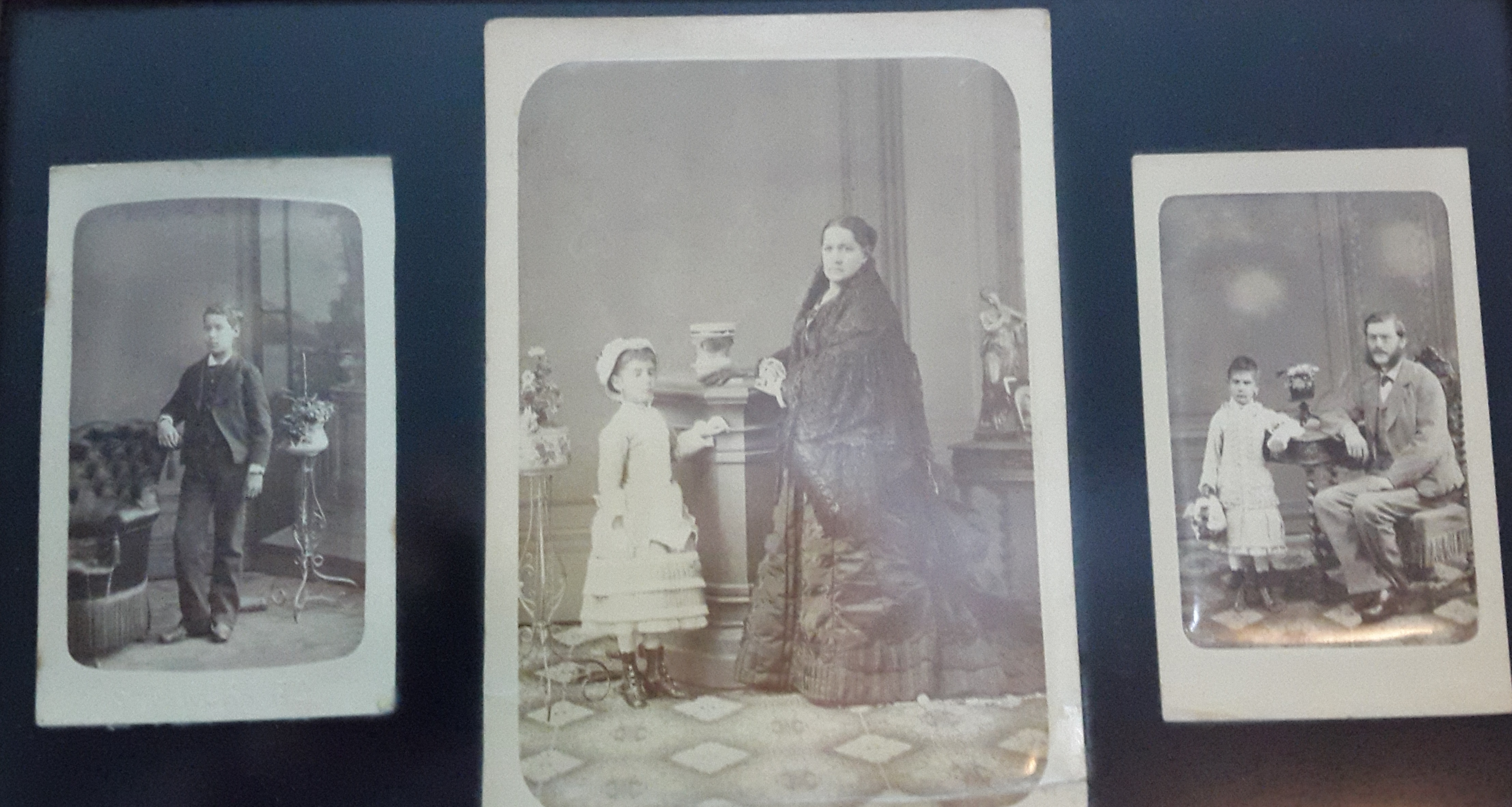 This family portrait depicts Jacinto Paoletti Desendant of Giuseppe Paoletti with his wife, Patricia Güell and children, Jose Paoletti and Maria Luisa Paoletti, Last Countess of Rodoretto